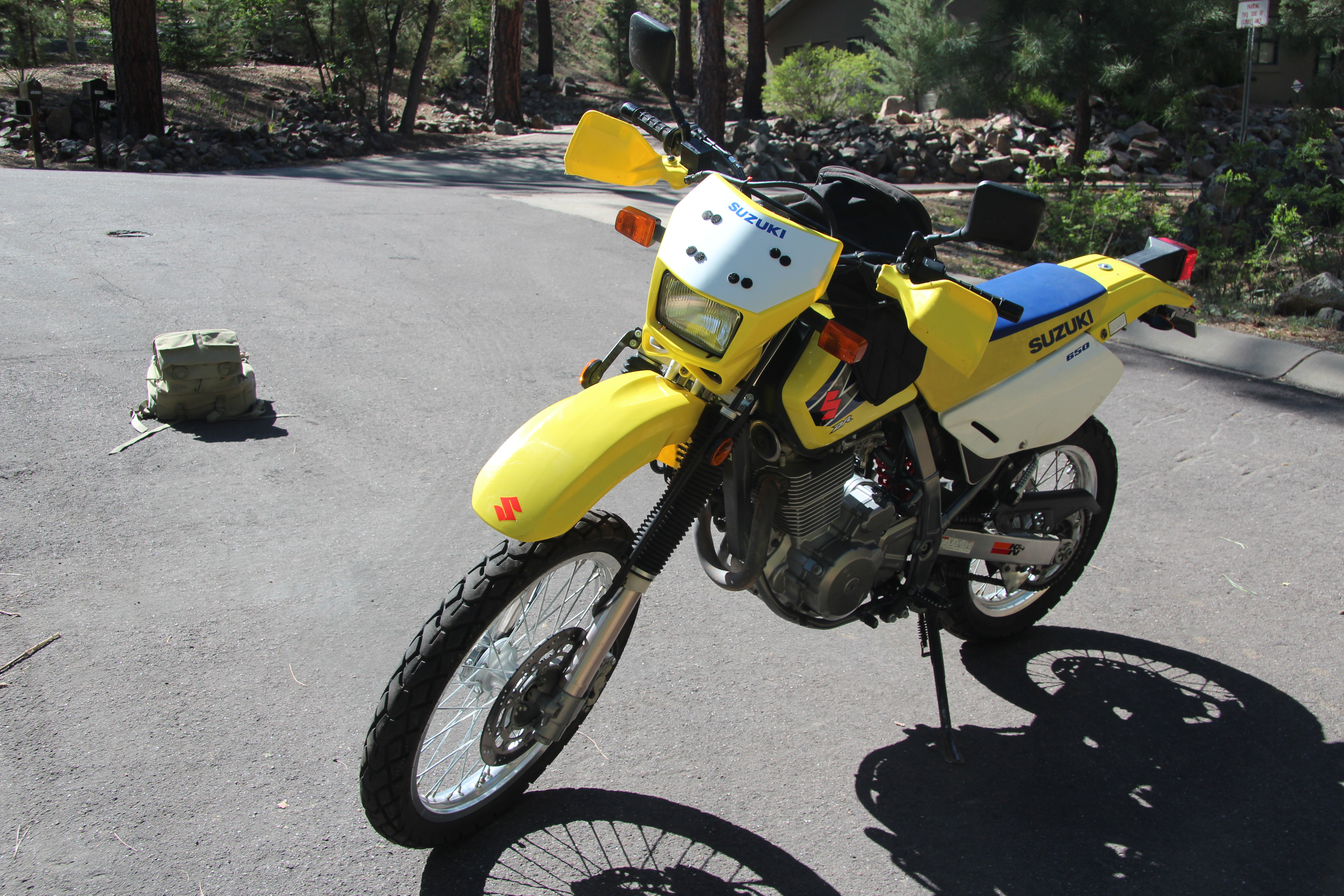 A 2000s Suzuki DR650 SE